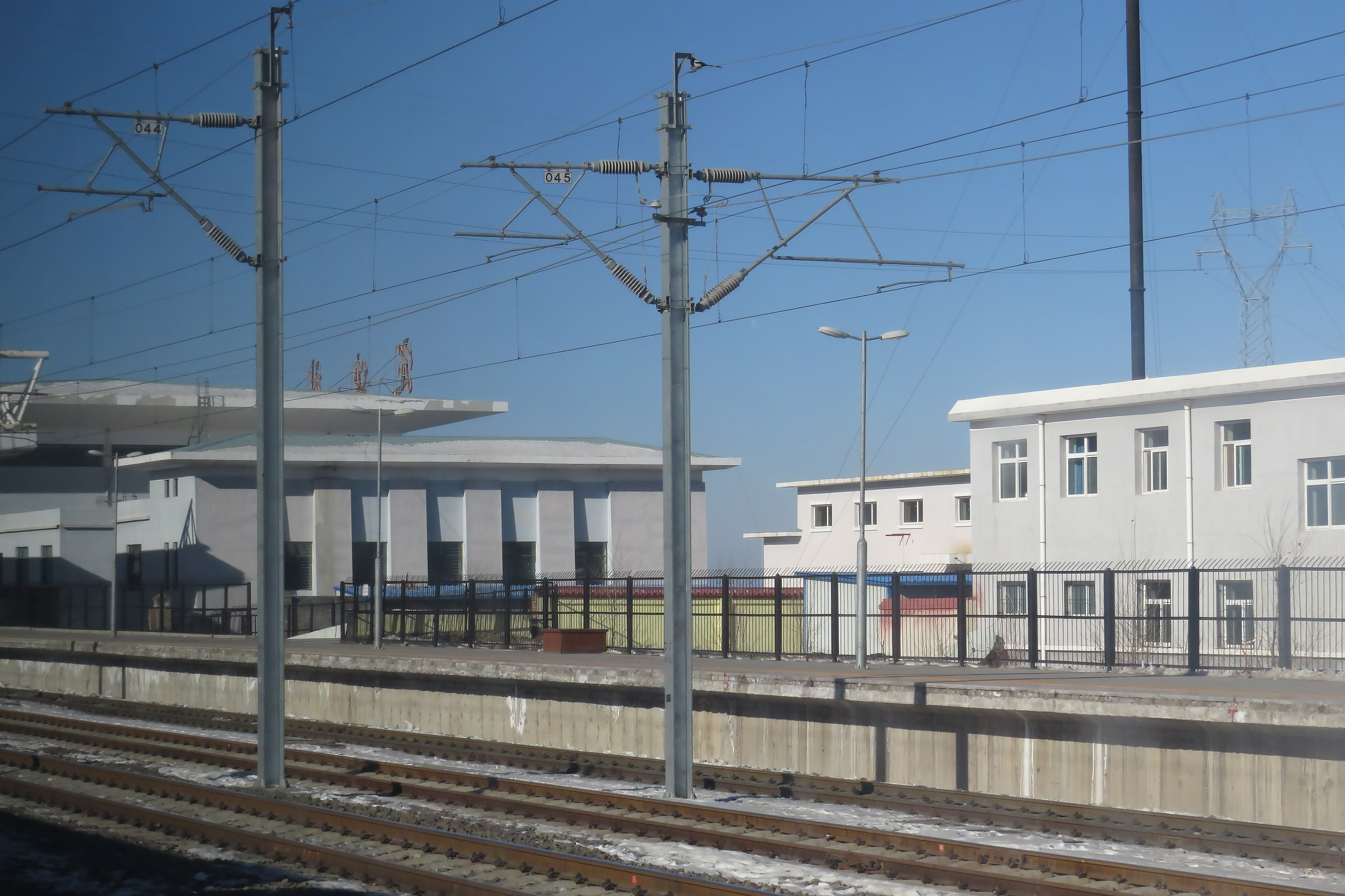 And here's the station building...